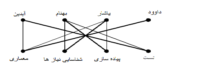 مدل کردن شغل ها